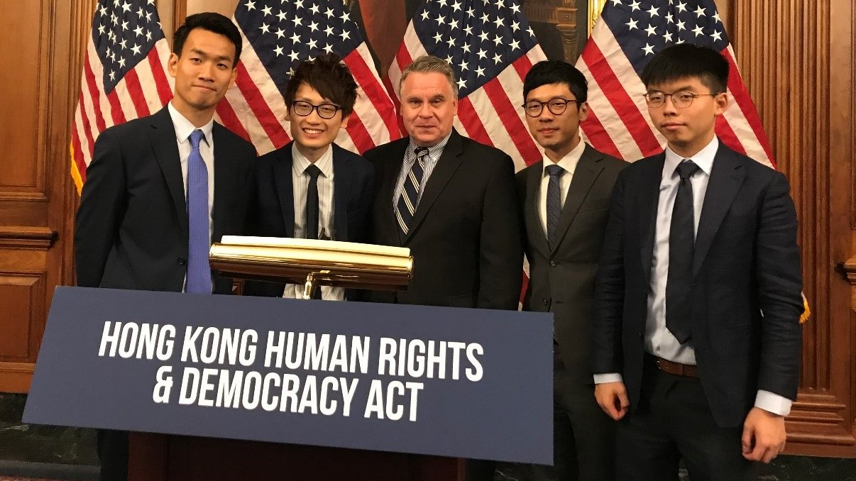 Today at a press conference hosted by Speaker Pelosi––a bipartisan group of Democrat & Republican lawmakers vowed to move my bill-the Hong Kong Human Rights & Democracy Act (HR 3289).